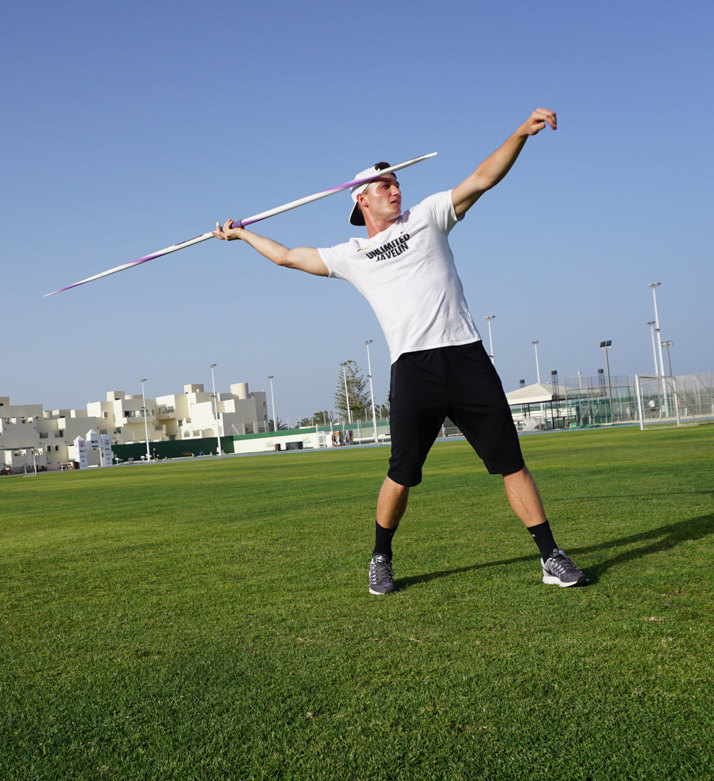 Thomas Röhler, Olympic Champion 2016 in the javelin throw training at Club La Santa 2017.